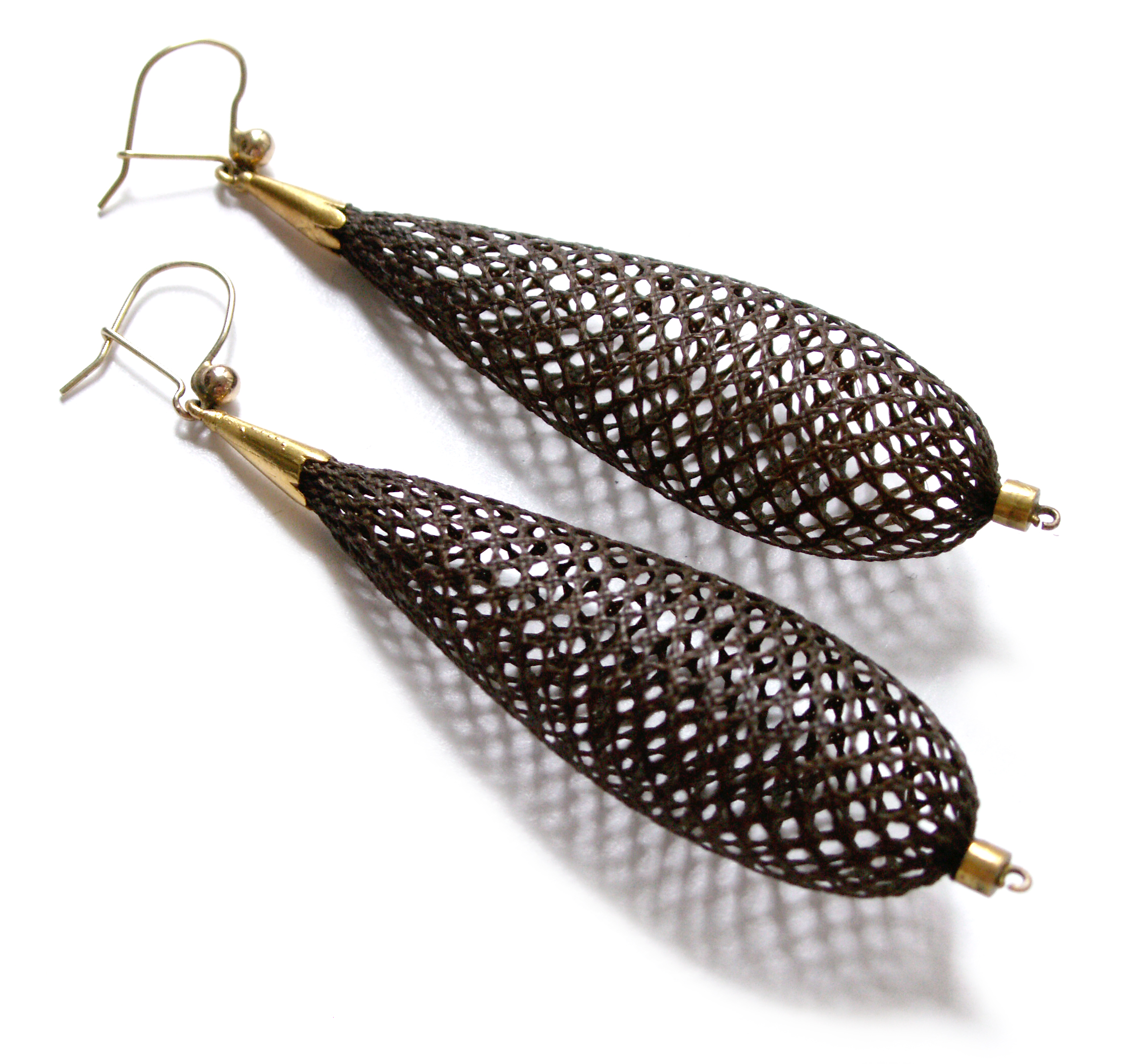 Earrings made from braided hair, Germany, ca. 1840. Property of Hofer Antikschmuck, Berlin (Germany).